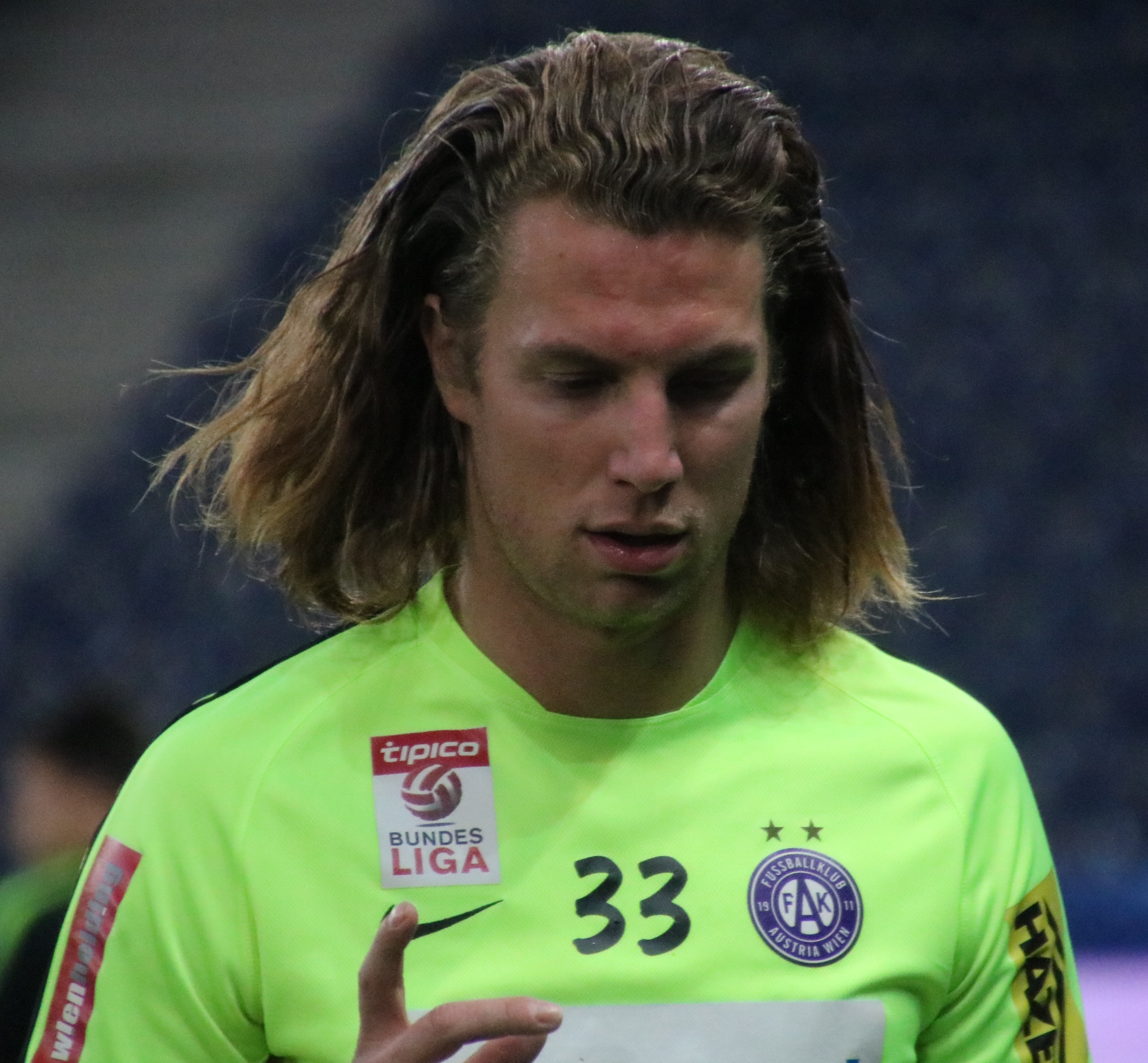 Cup semifinal match